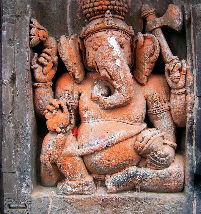 Lord Ganesh Sculpture